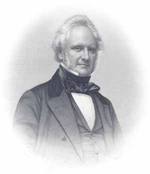 merchant and philanthropist George Peabody, who founded the Peabody Museum in Massachusetts. (Not George Foster Peabody (1852-1938)) From an undated steel plate engraving.